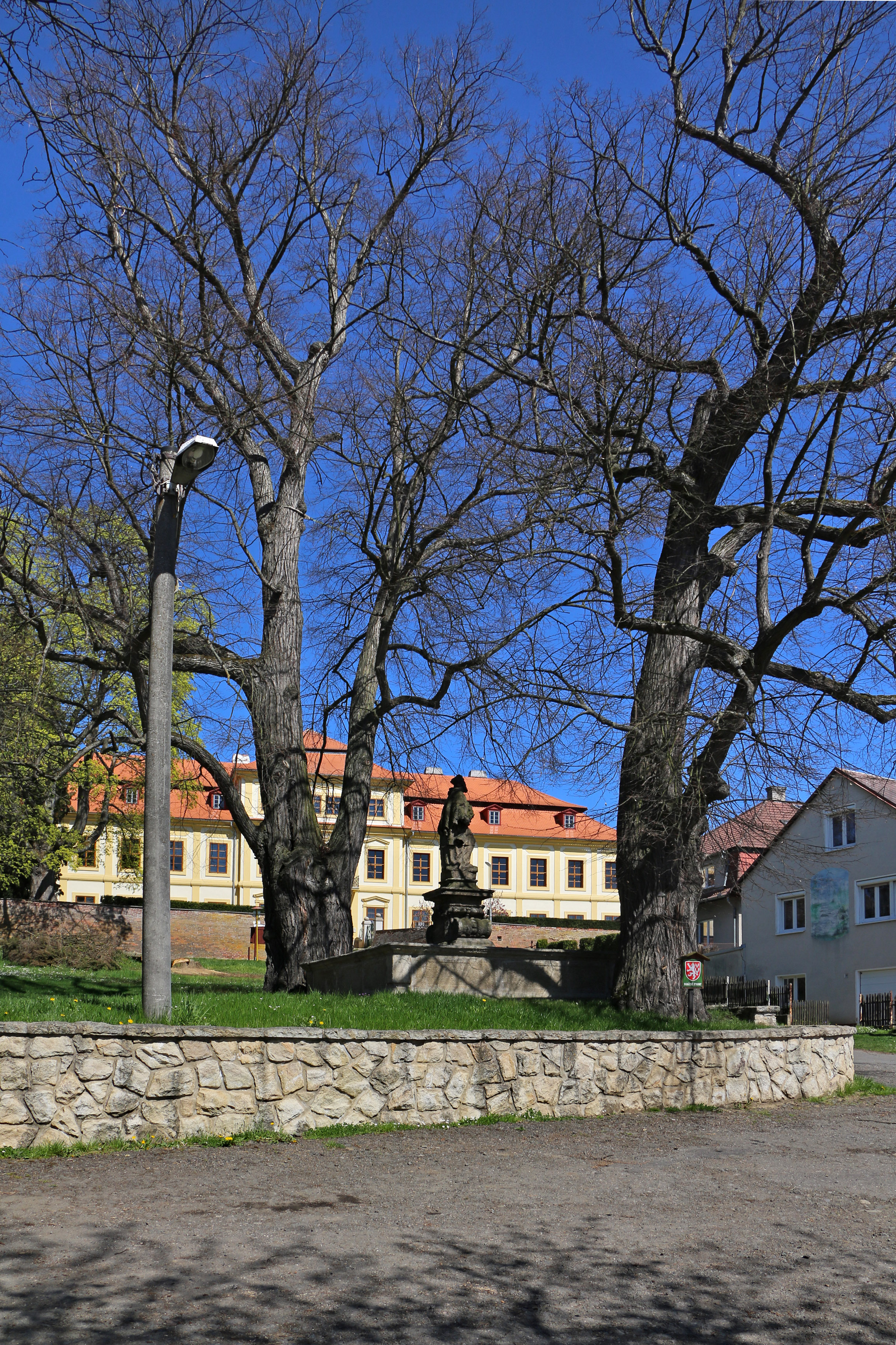 Memorable lime trees in Svojšín, Czech Republic.